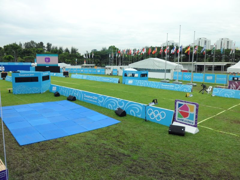 Kallang Field, Singapore, the venue of the archery competition at the 2010 Summer Youth Olympics.